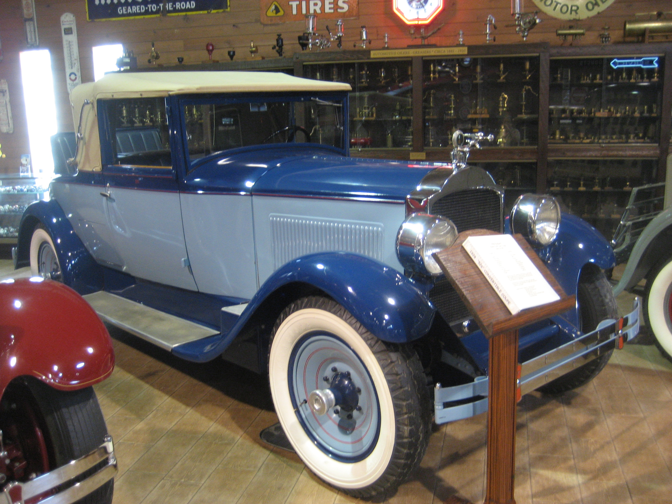 1928 Packard Model 5-26 Convertable Coupe on display at the Fort Lauderdale Antique Car Museum.